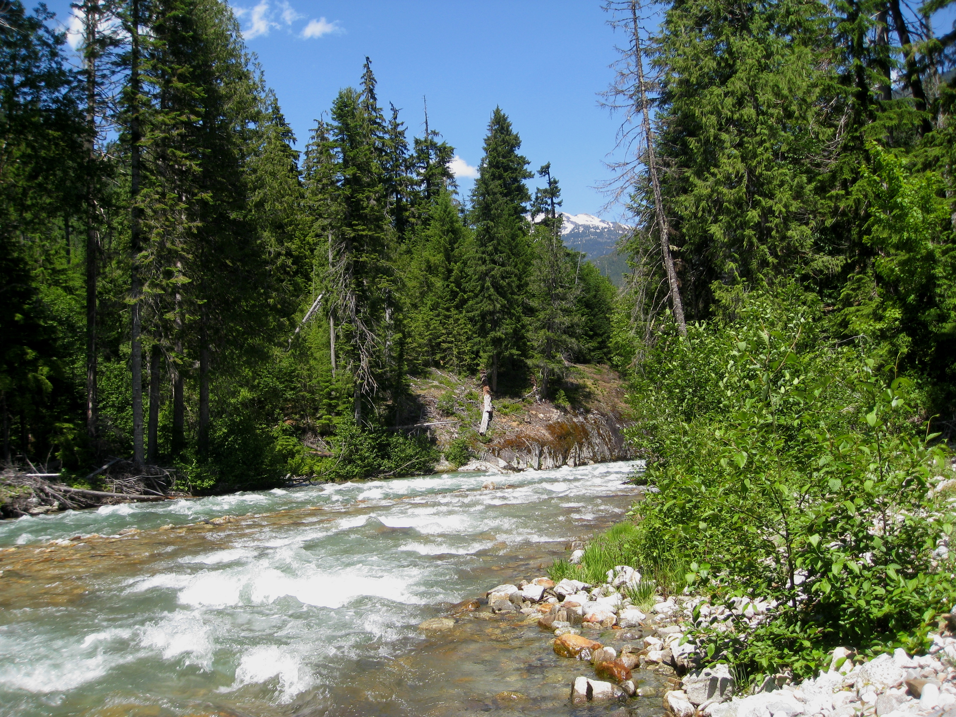 This creek seems more like a river to me! Thunder Creek Trail North Cascades National Park Skagit County, Washington, USA Elevation about 600 meter (1970 feet)